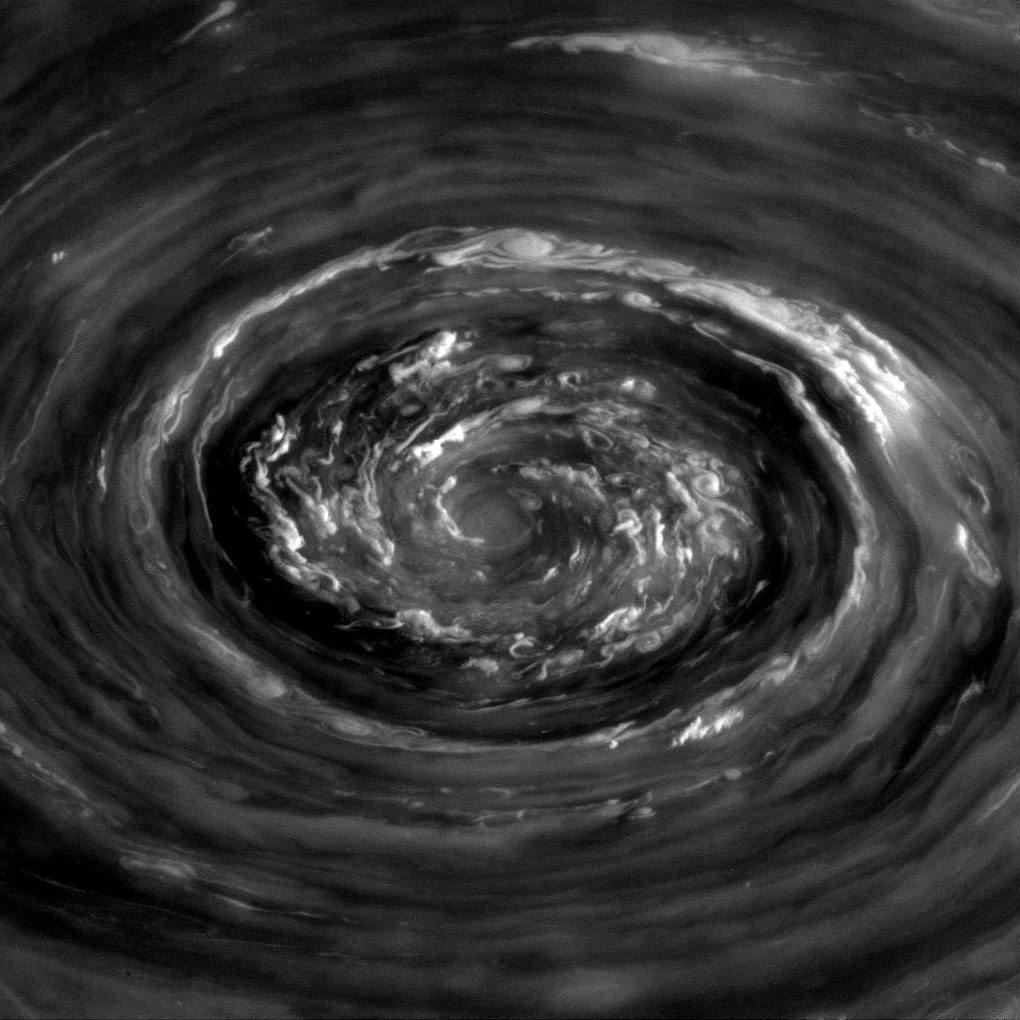 This raw, unprocessed image of Saturn was taken on November 27, 2012 and received on Earth November 27, 2012. The camera was pointing toward Saturn at approximately 400048 kilometers away, and the image was taken using the P0 and CB2 filters. The image has not been validated or calibrated. A validated/calibrated image will be archived with the Planetary Data System in 2013. The Cassini Solstice Mission is a joint United States and European endeavor. The Jet Propulsion Laboratory, a division of the California Institute of Technology in Pasadena, manages the mission for NASA's Science Mission Directorate, Washington, D.C. The Cassini orbiter was designed, developed and assembled at JPL. The imaging team consists of scientists from the US, England, France, and Germany. The imaging operations center and team lead (Dr. C. Porco) are based at the Space Science Institute in Boulder, Colo. The original NASA image has been altered by cropping slightly, removal of artifacts and brightening.